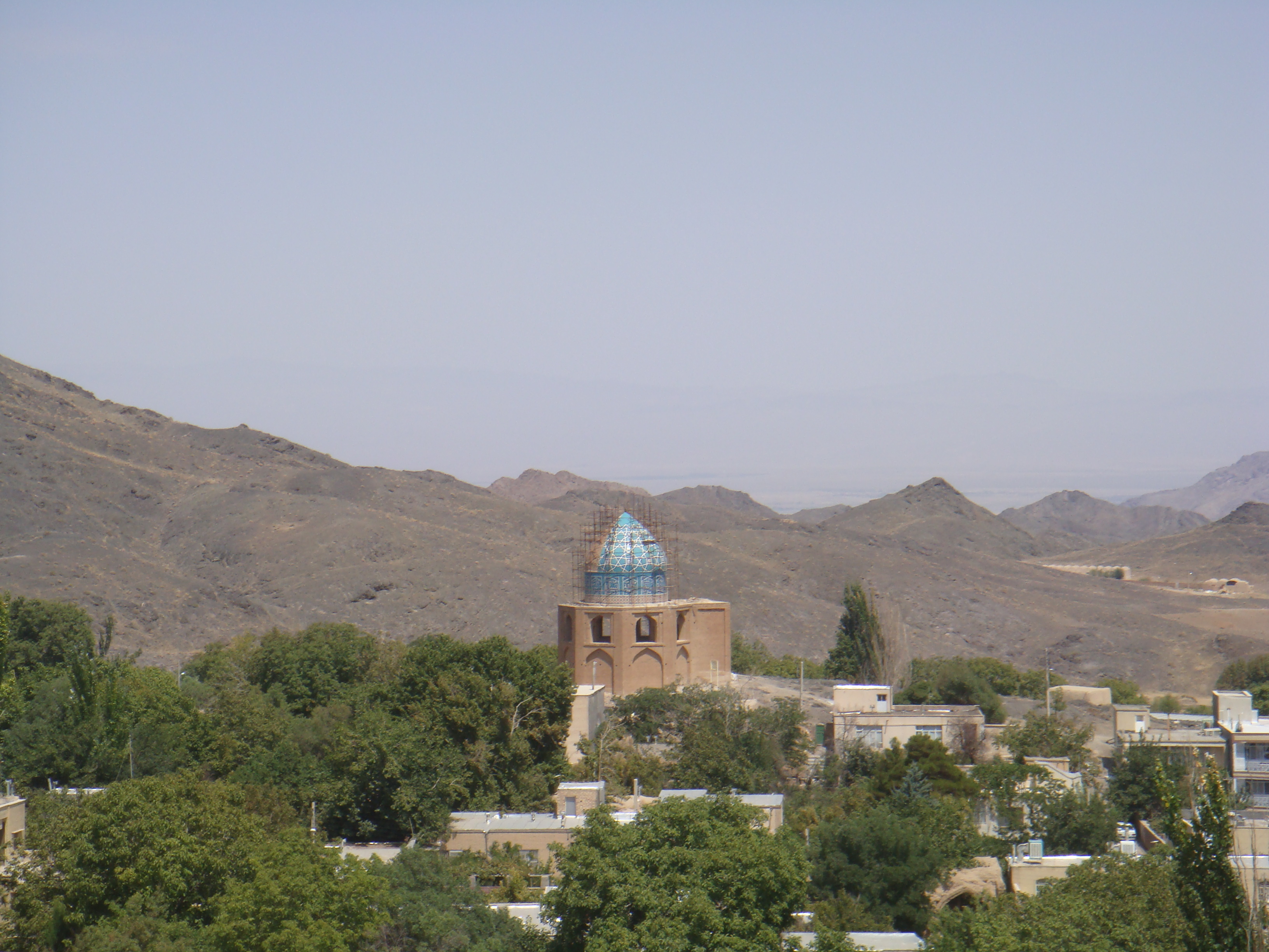 Mausoleum of Mir Sayed Vaghef in Natanz